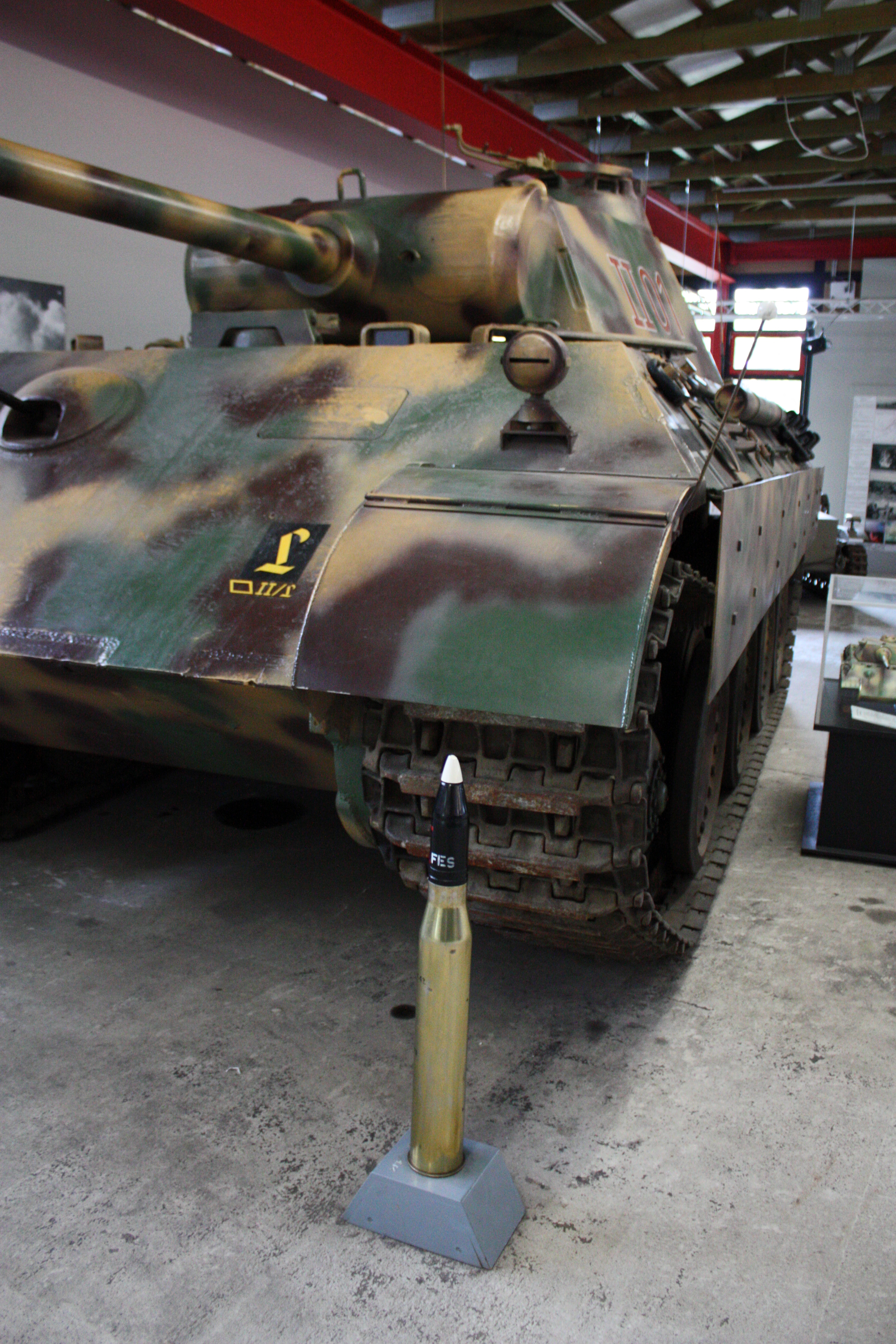 German Tank Museum